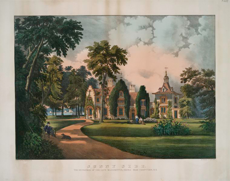 Currier and Ives print "Sunnyside" of the home of the American author Washington Irving in Tarrytown, New York. Courtesy of the New York Public Library Digital Collection.